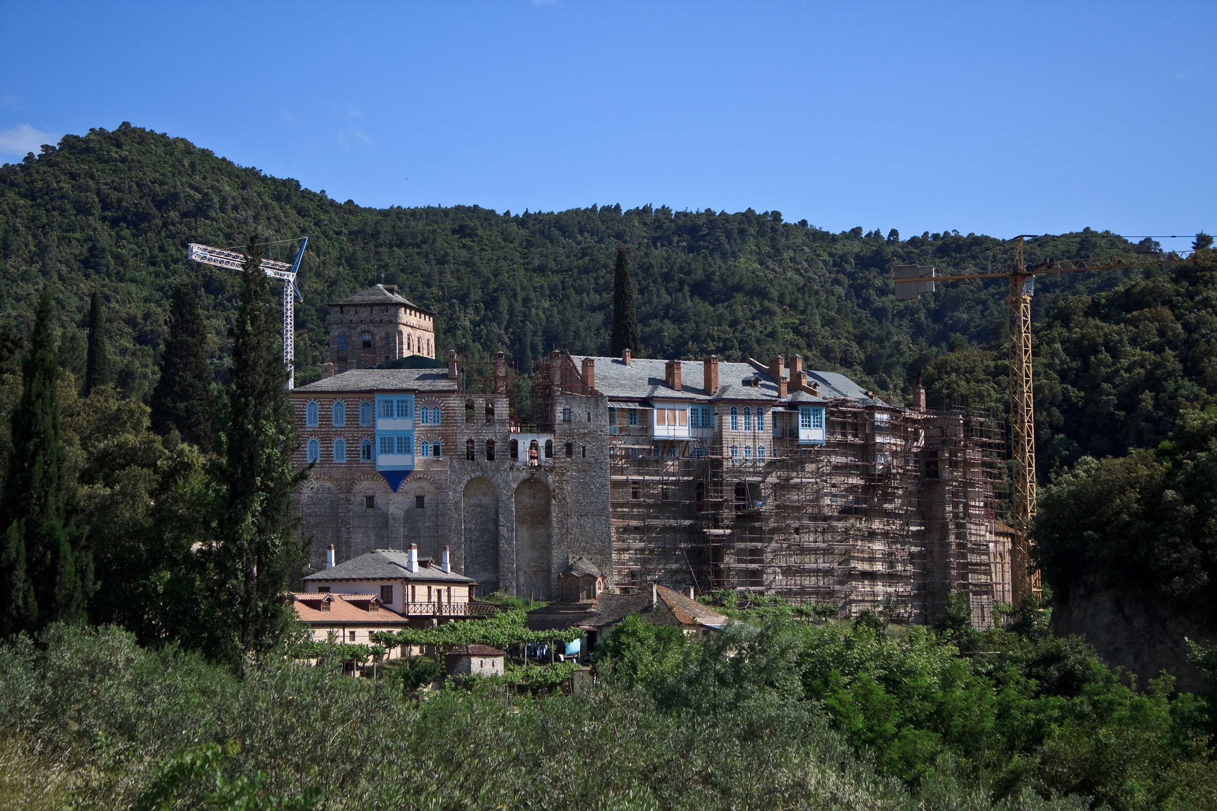 Reconstruction of the Hilandar monastery, Athos